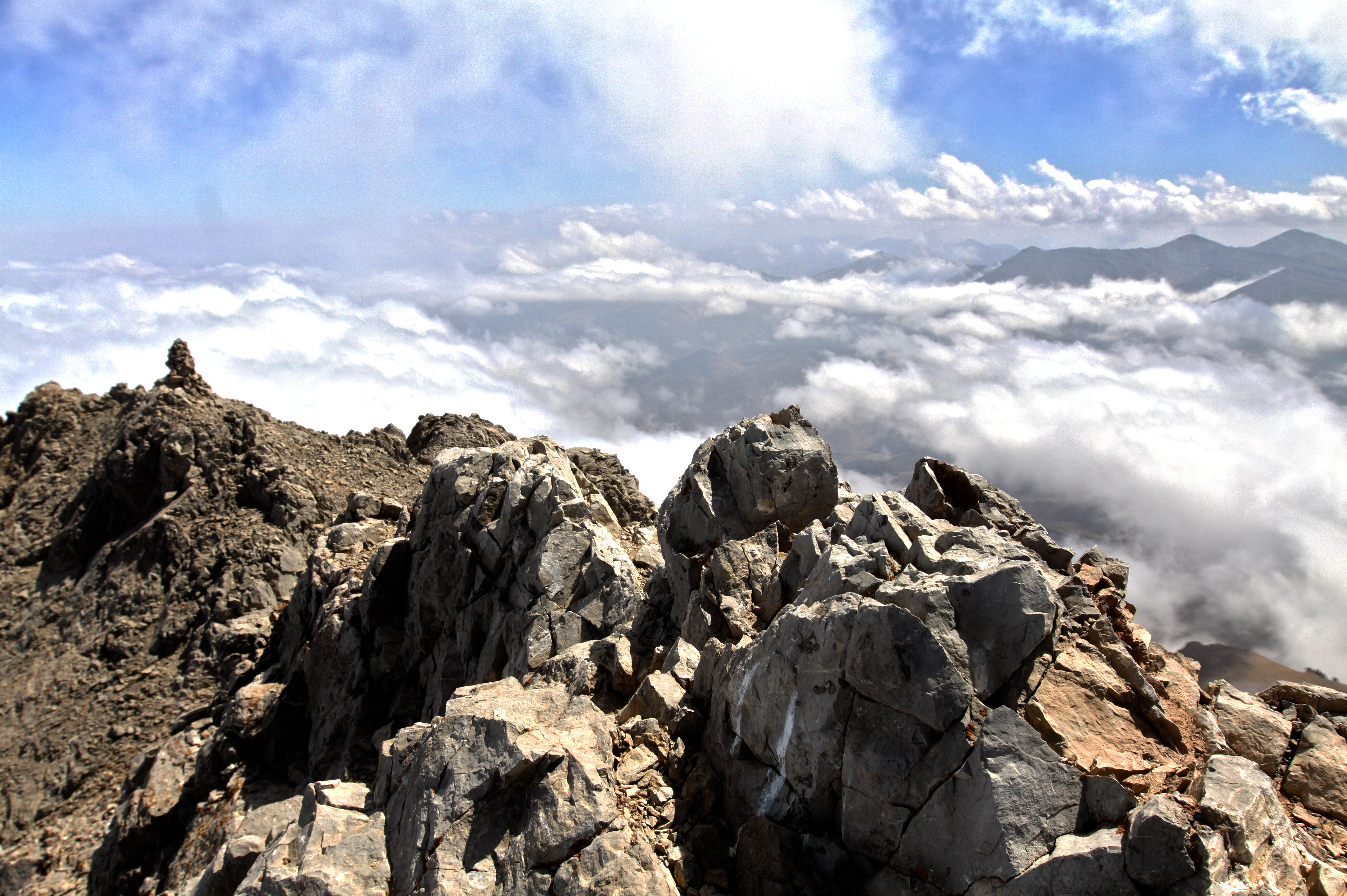 Azadkooh Summit